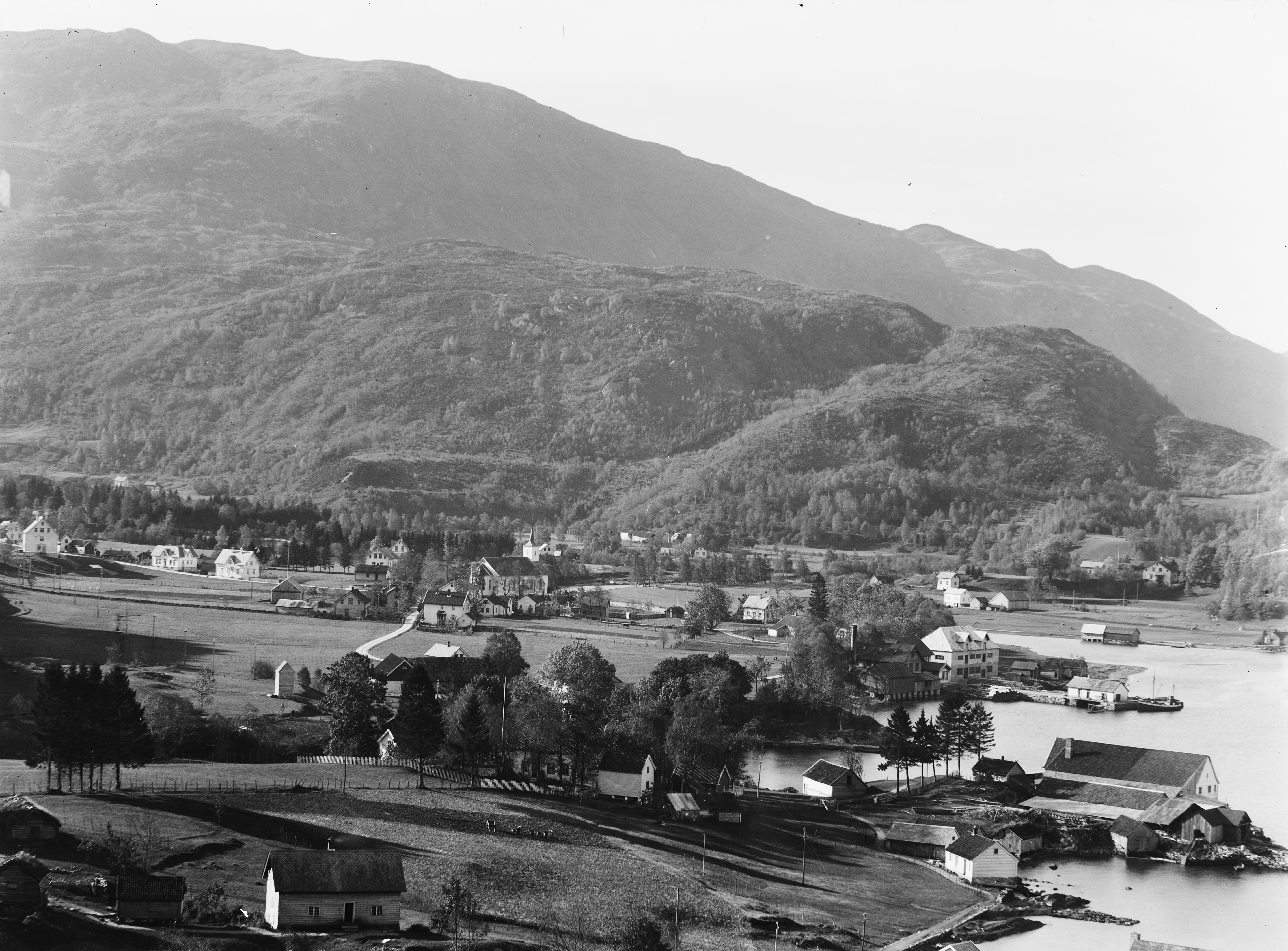 Identifier: SFFf-1989013.307442 Medium: Glass plate negative Extent: 18 x 24 cm Photographer: Olai Fauske